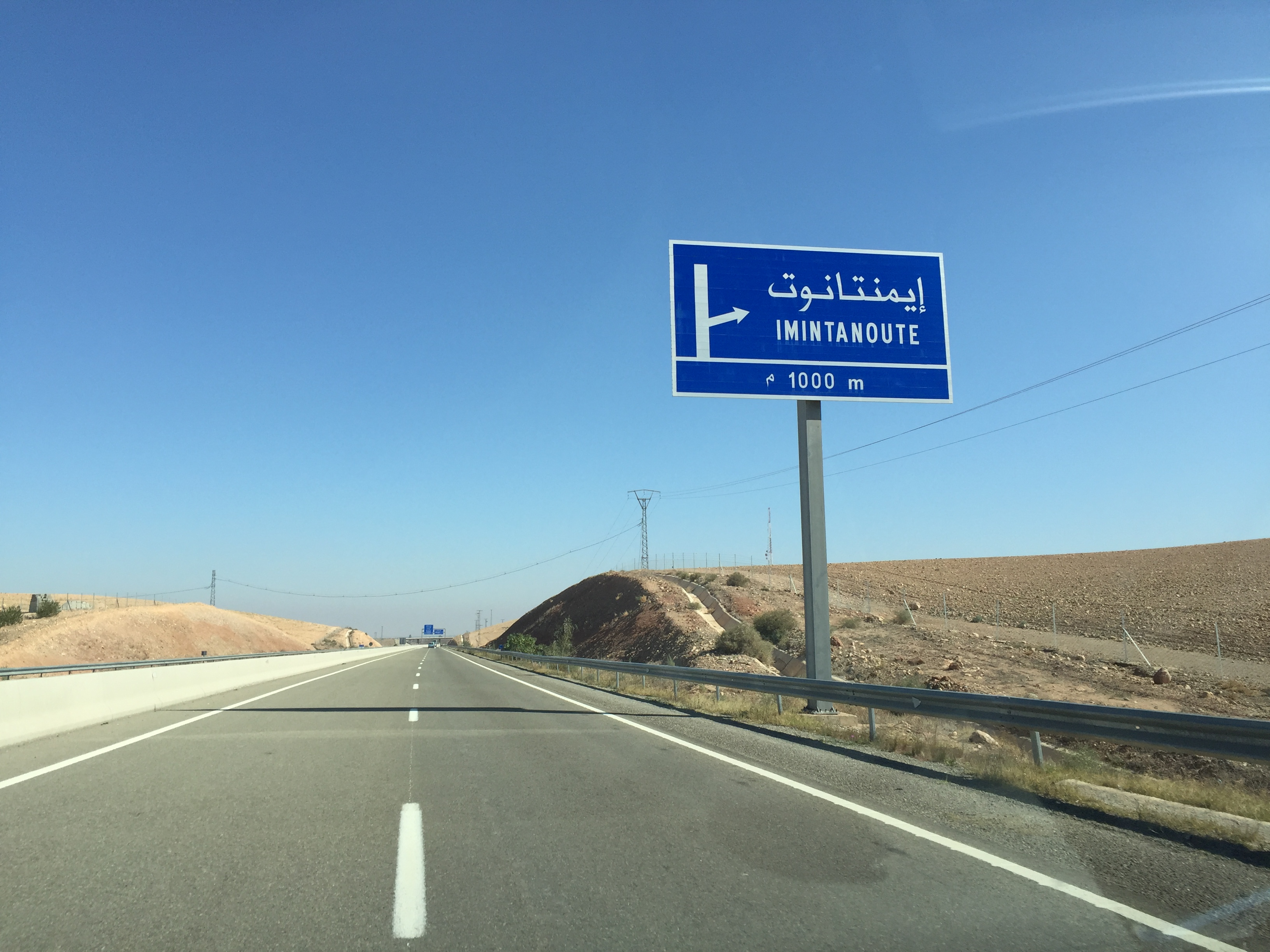 Exit Iminitanoute A7